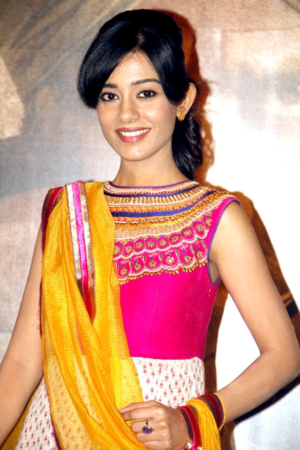 Amrita Rao at the First look launch of 'Singh Sahab The Great'